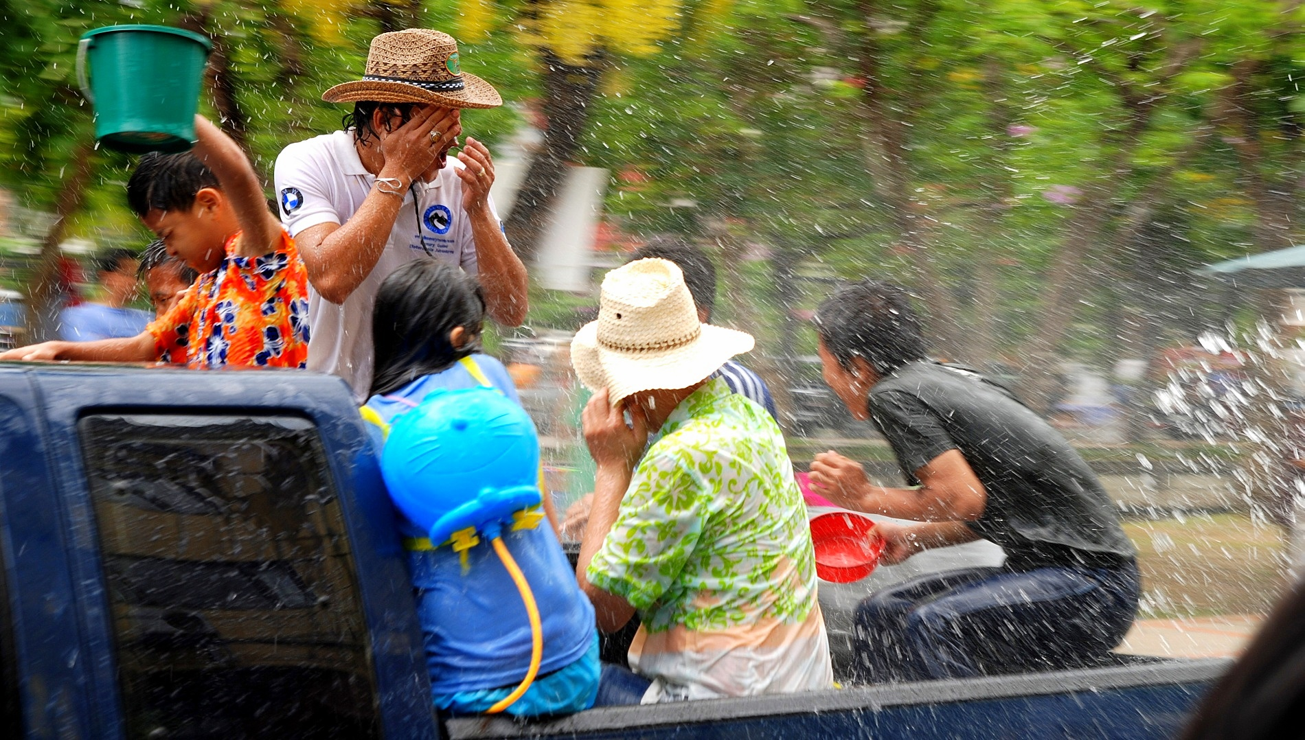 People on the back of a truck get soaked during the Songkran festival in Chiang Mai, Thailand